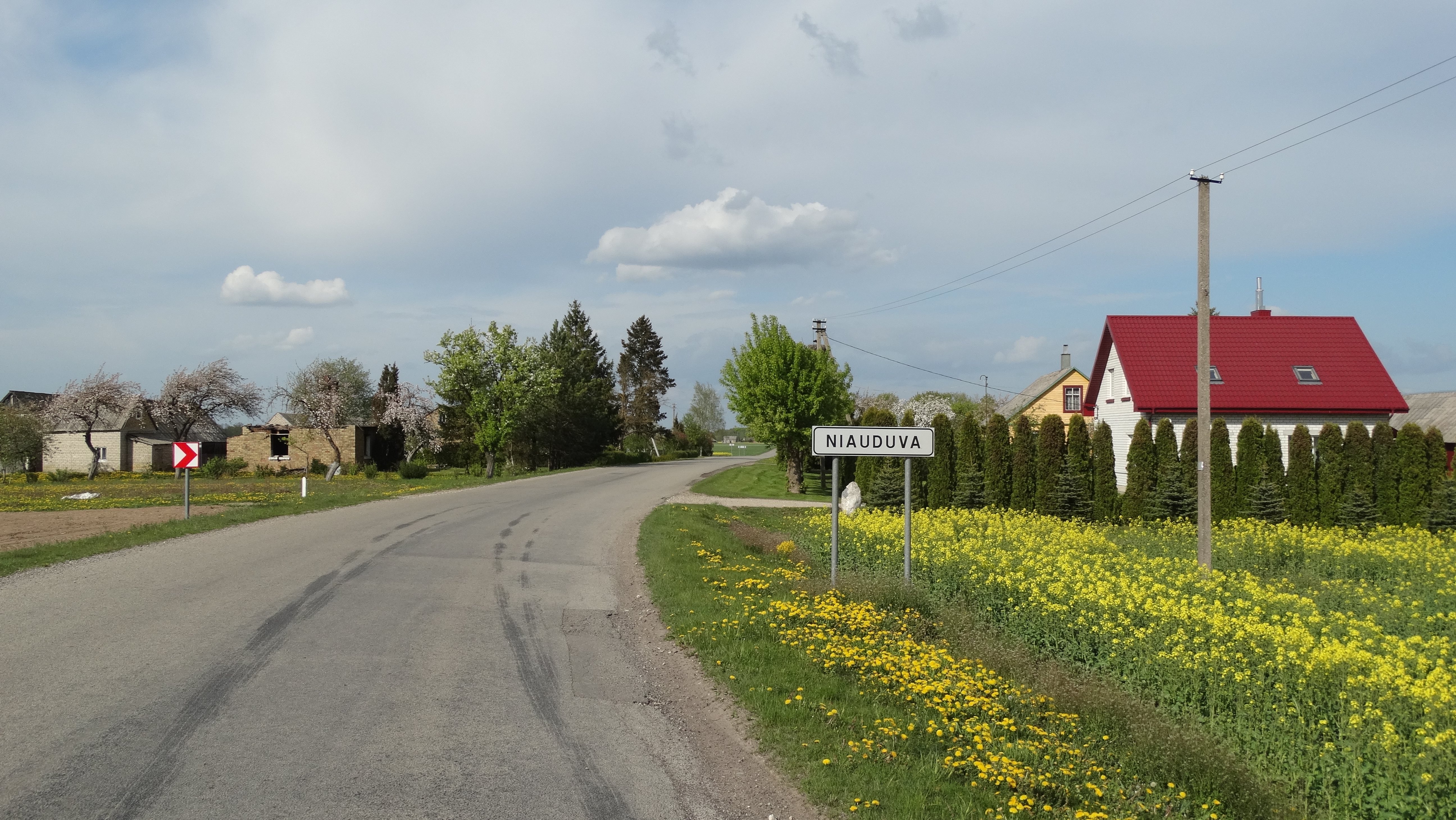 Niauduva, by Šeduva, Lithuania